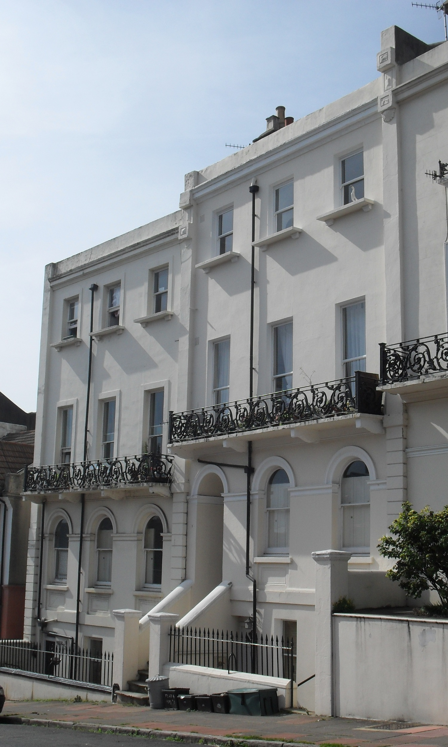 19 and 21 Roundhill Crescent, Round Hill, City of Brighton and Hove, England. Part of a terrace of middle-class housing built in the 1860s. Listed at Grade II by English Heritage (IoE Code 481158)